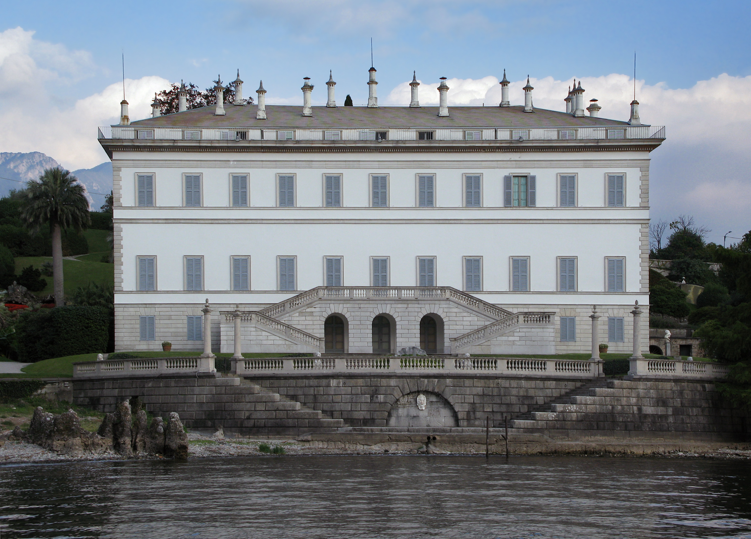 Edit of Image:VillaMelziLago.jpg. Original description: A view of Villa Melzid'Eril from Lake Como.